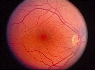 The sensitive layer of the eye.